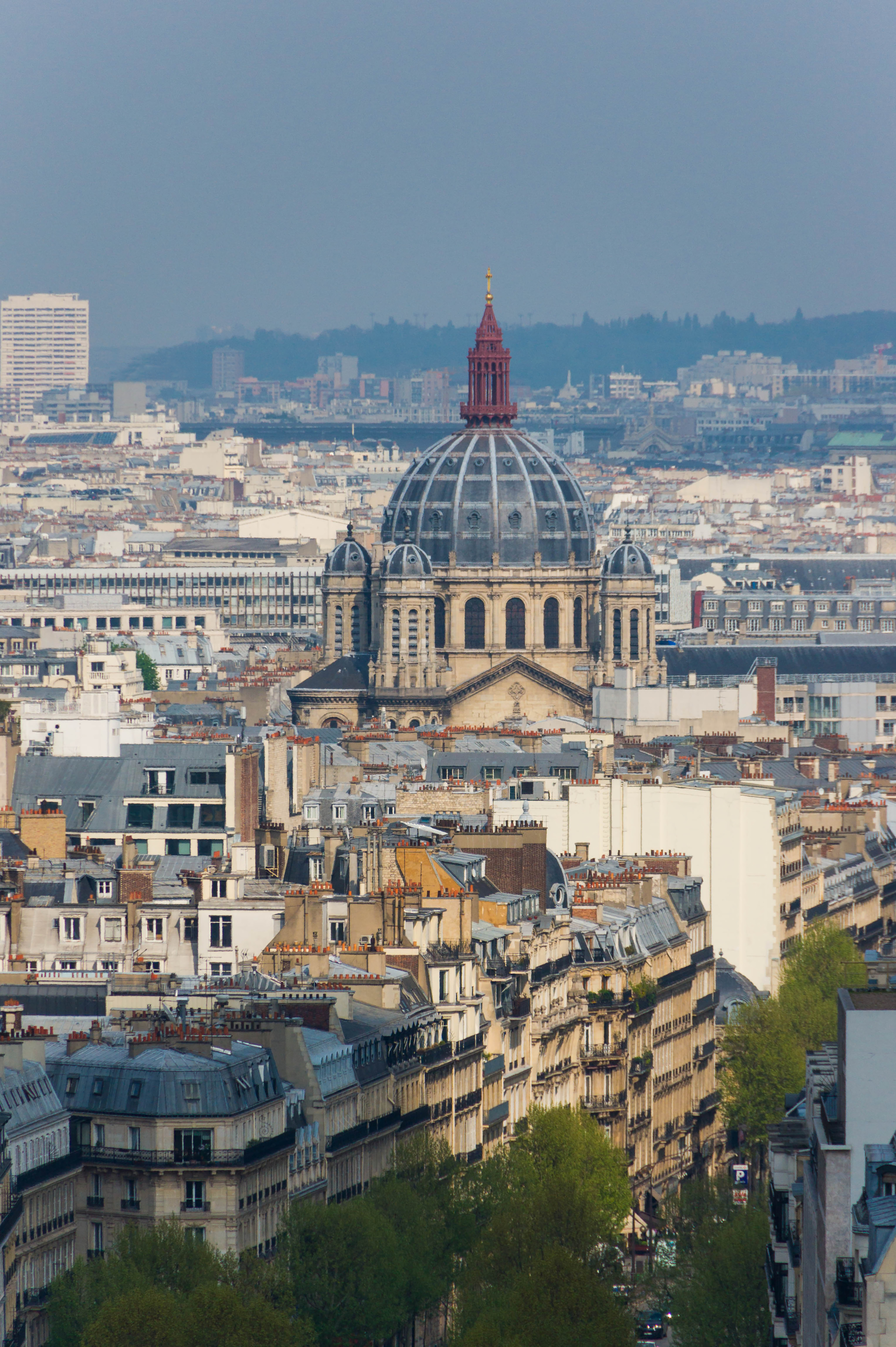 Roofs of Paris, dome and pinnacles of church Saint-Augustin, view from Arc de Triomphe.